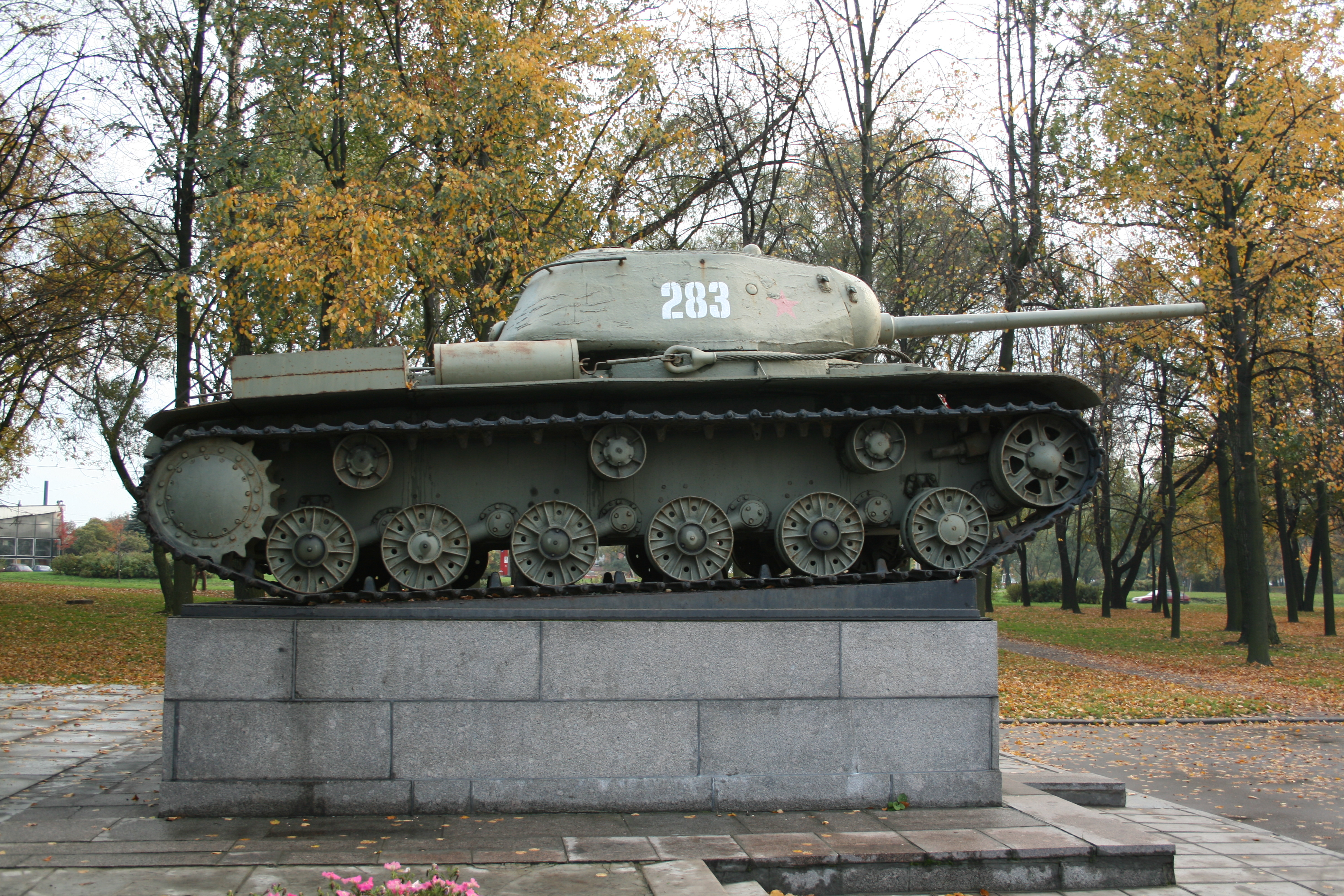 KV-85, right side view